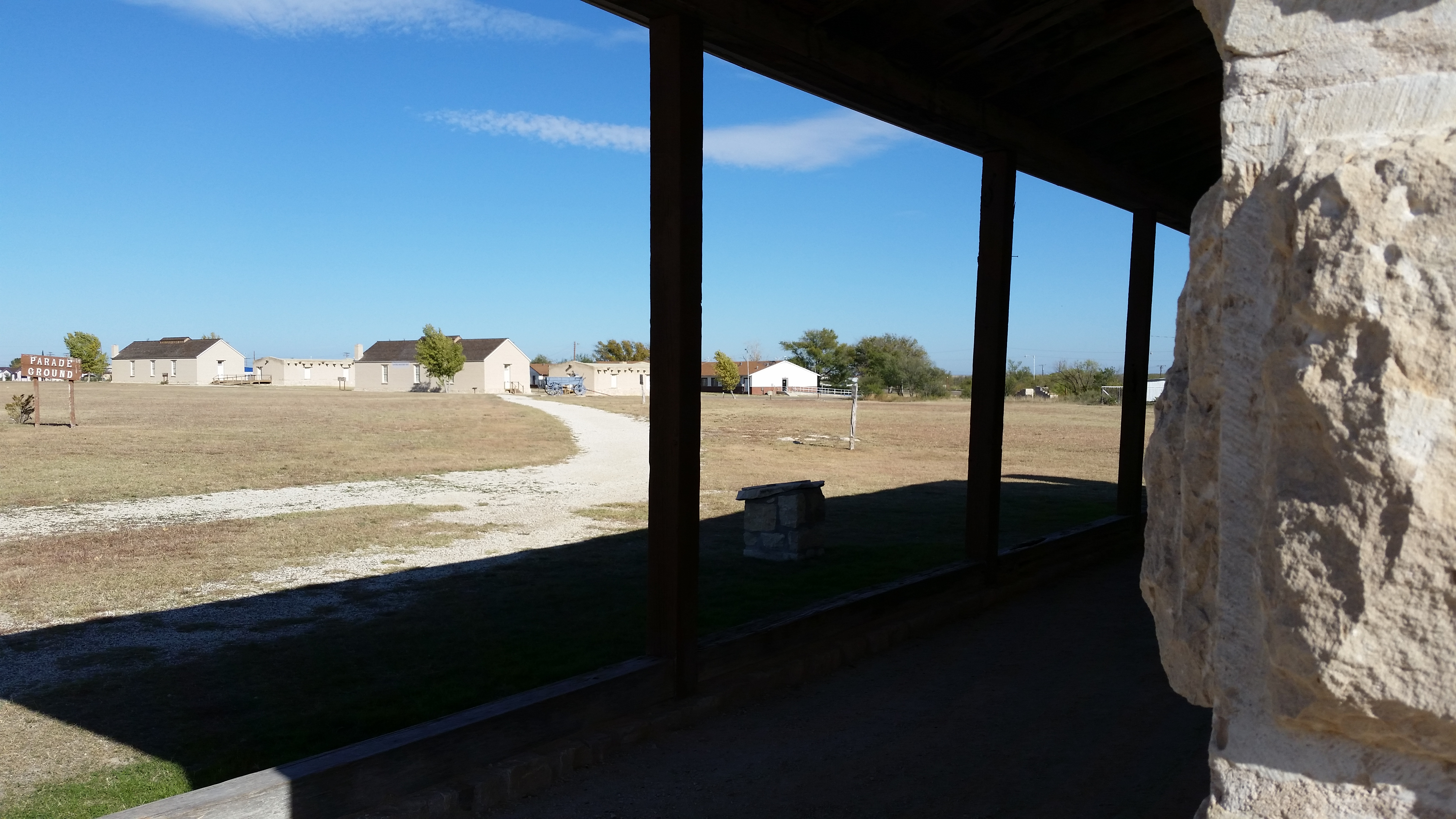 Fort Stockton parade ground and barracks as seen from the guard house